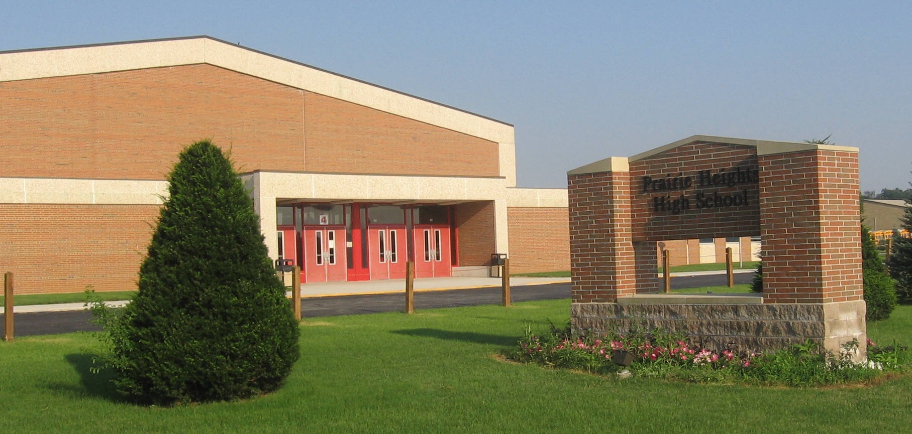 Prairie Heights High School, in northeast Indiana. The school district encompasses parts of both Steuben and LaGrange counties.